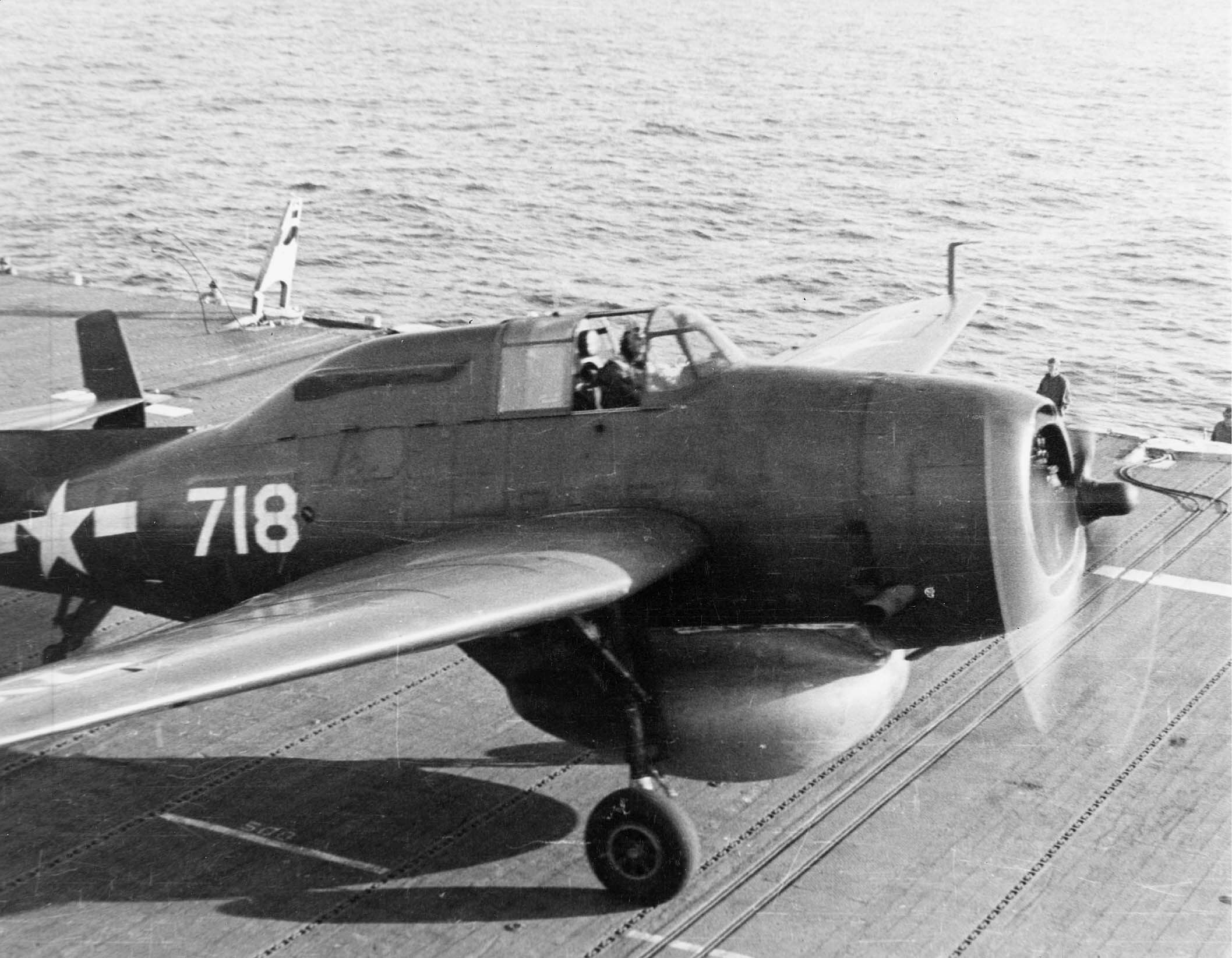 A U.S. Navy Grumman TBM-3Q Avenger of attack squadron VA-6A Torpcats rolls out after recovery on board the aircraft carrier USS Shangri-La (CV-38) operating off the coast of Southern California (USA), in 1947. Note the bulbous AN/APS-20 radar on the aircraft's fuselage for radio countermeasures. VA-6A had been established as VT-5 on 15 February 1943, and made one cruise on board Shangri-La following redesignation on 15 November 1946. The squadron was redesignated VA-55 on 16 August 1948 and finally disestablished in 1975.